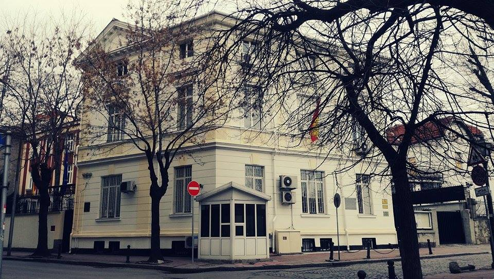 Spanish Embassy in Bulgaria